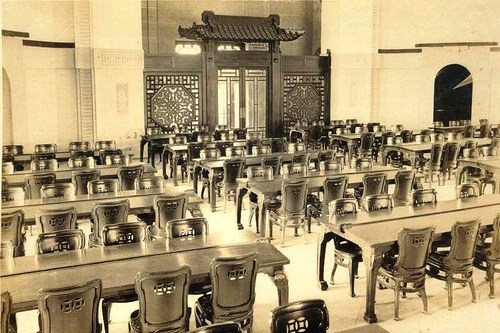 Classroom in Wuhan University, during the 1930s.